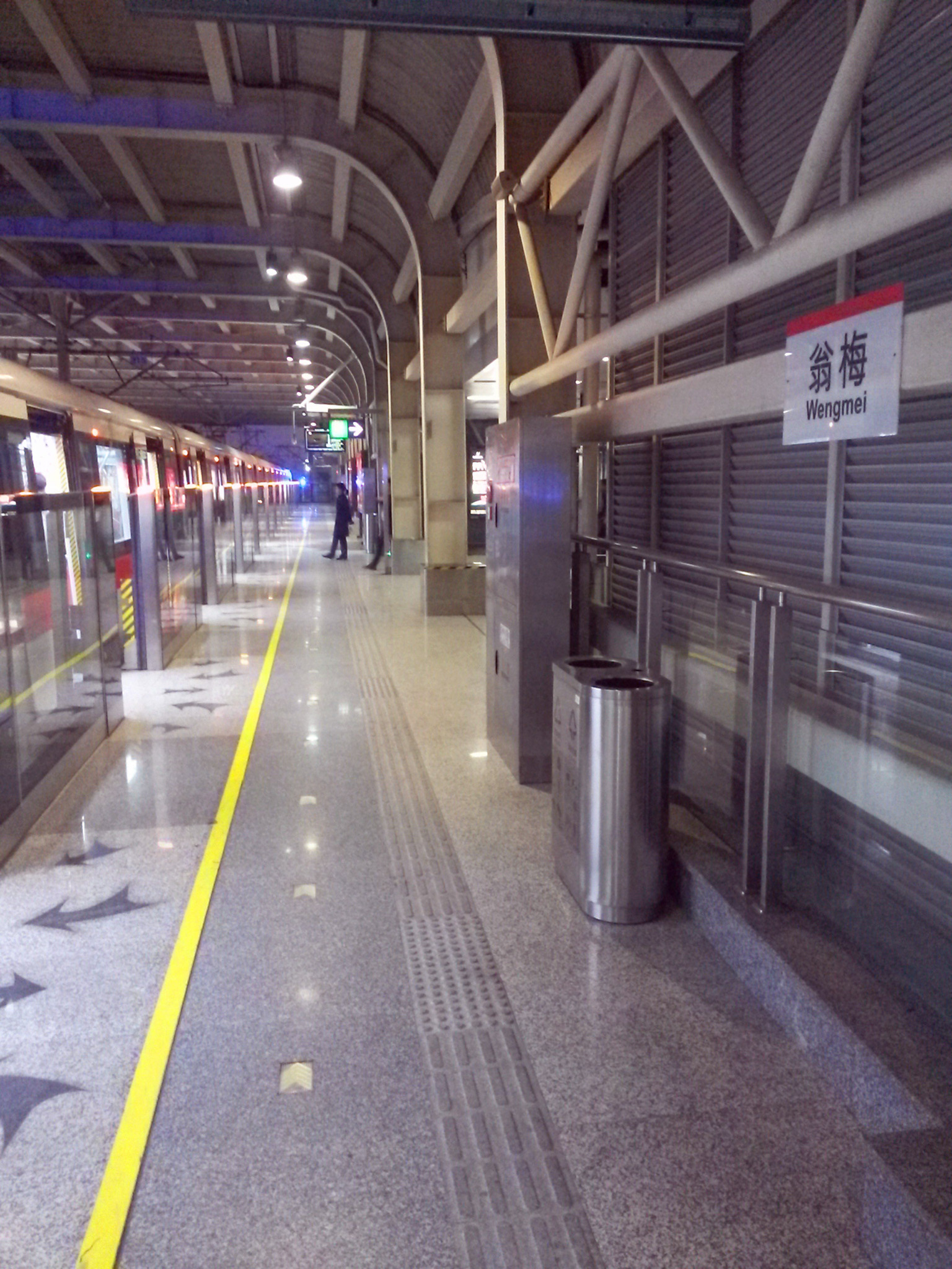 Wengmei Station